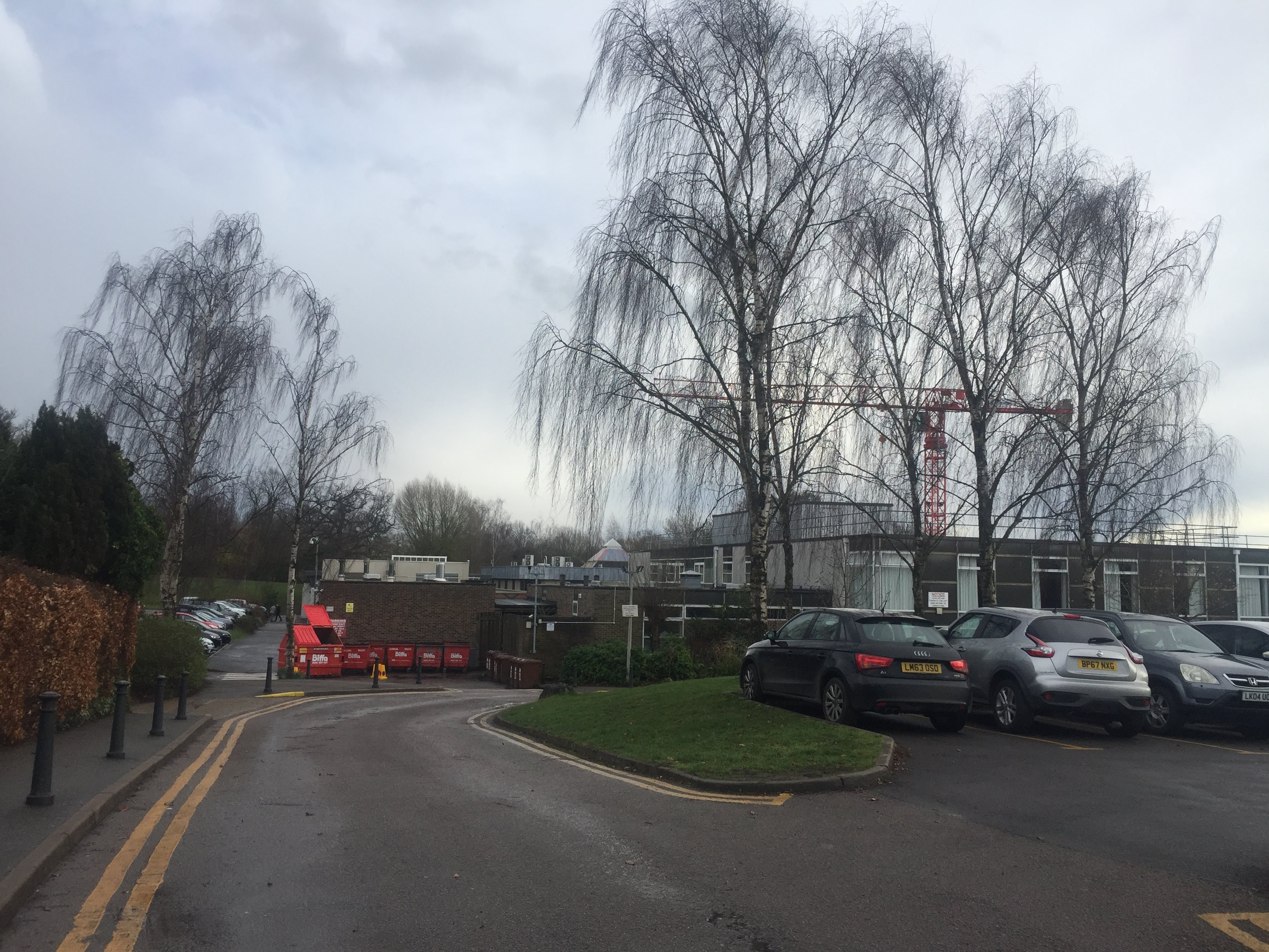 A view of the front of Dame Alice Owen's School in Hertfordshire, England; the photo was taken from Dugdale Hill Lane through an open gate. The picture features a road connected to one car park in the foreground on the right and a second car park in the background on the left; there are cars in both of the car parks. To the left of the road is a path separated from the road by bollards, and to the left of this path is a hedge. In the background are buildings, trees and a crane.